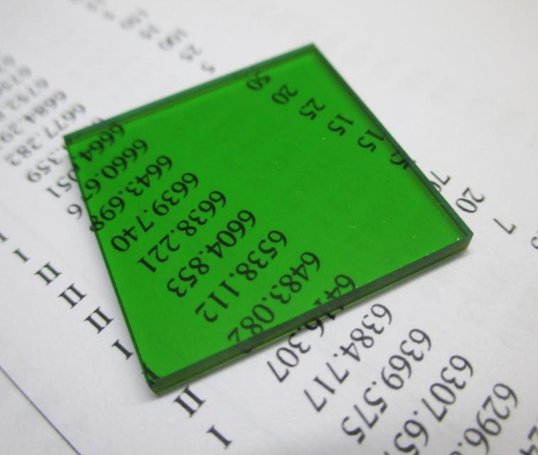 Optical colour glass filter, made by full-filtering method, most commonly used in regular photometer heads.